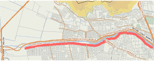 Map of Costanera Sur Av. Santiago, Chile